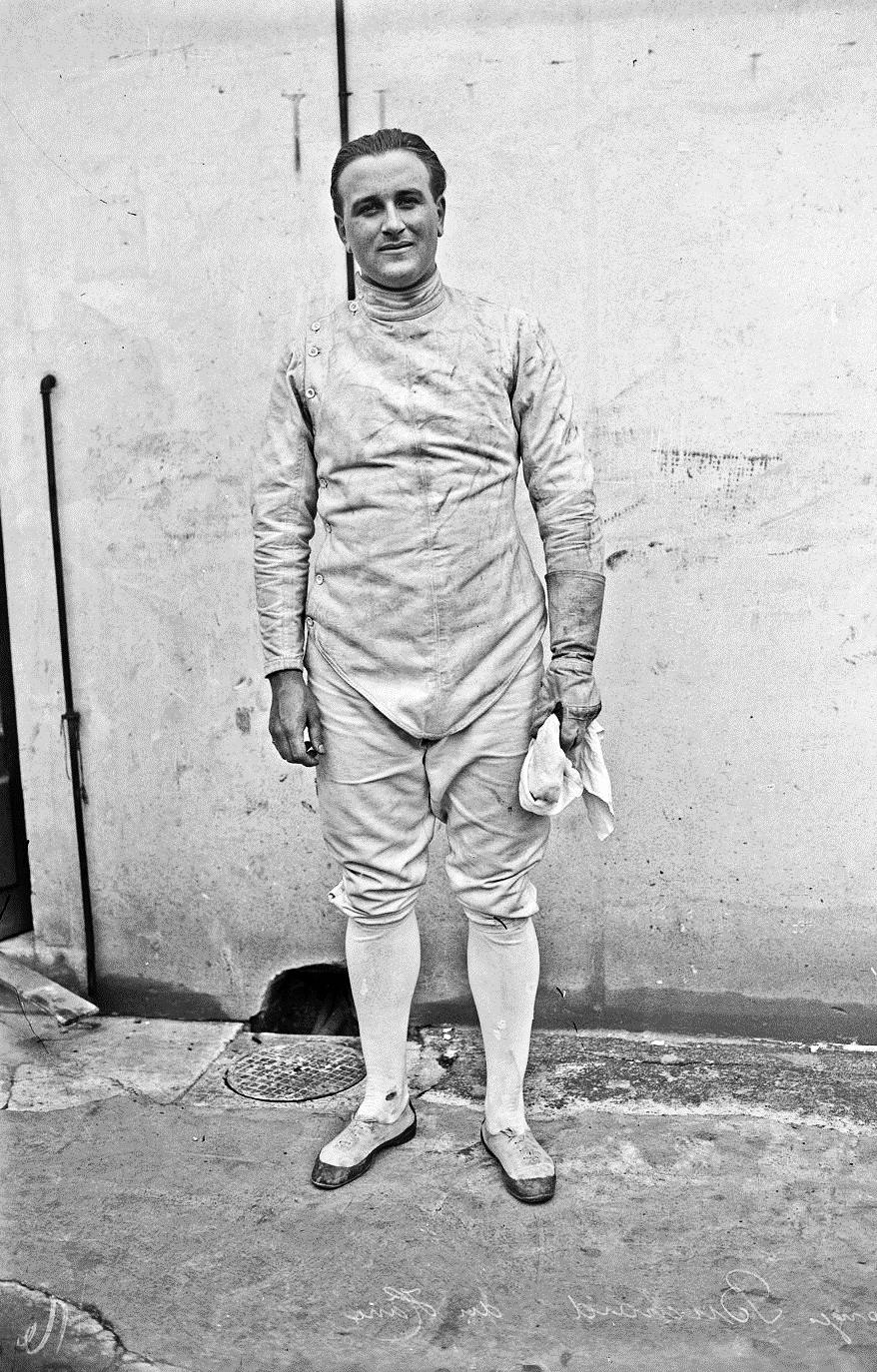 Fencer Georges Buchard at the French championship on 15 June 1922.